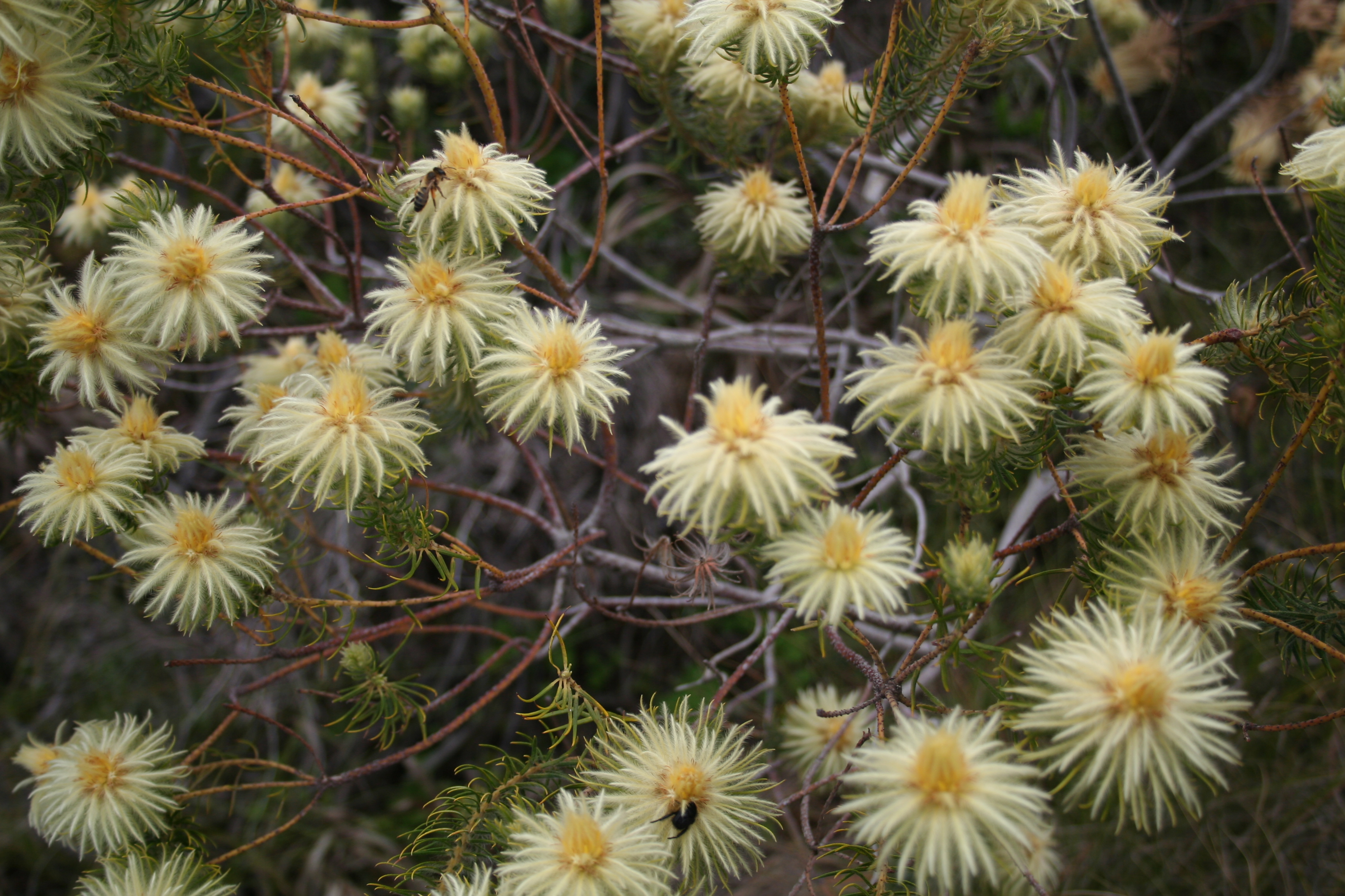 Phylica pubescens, Helderberg Nature Reserve, South Africa